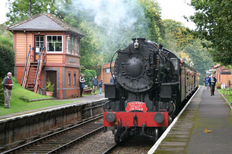 USATC ‘Austerity’ S160 No: 5197 at Crowcombe.